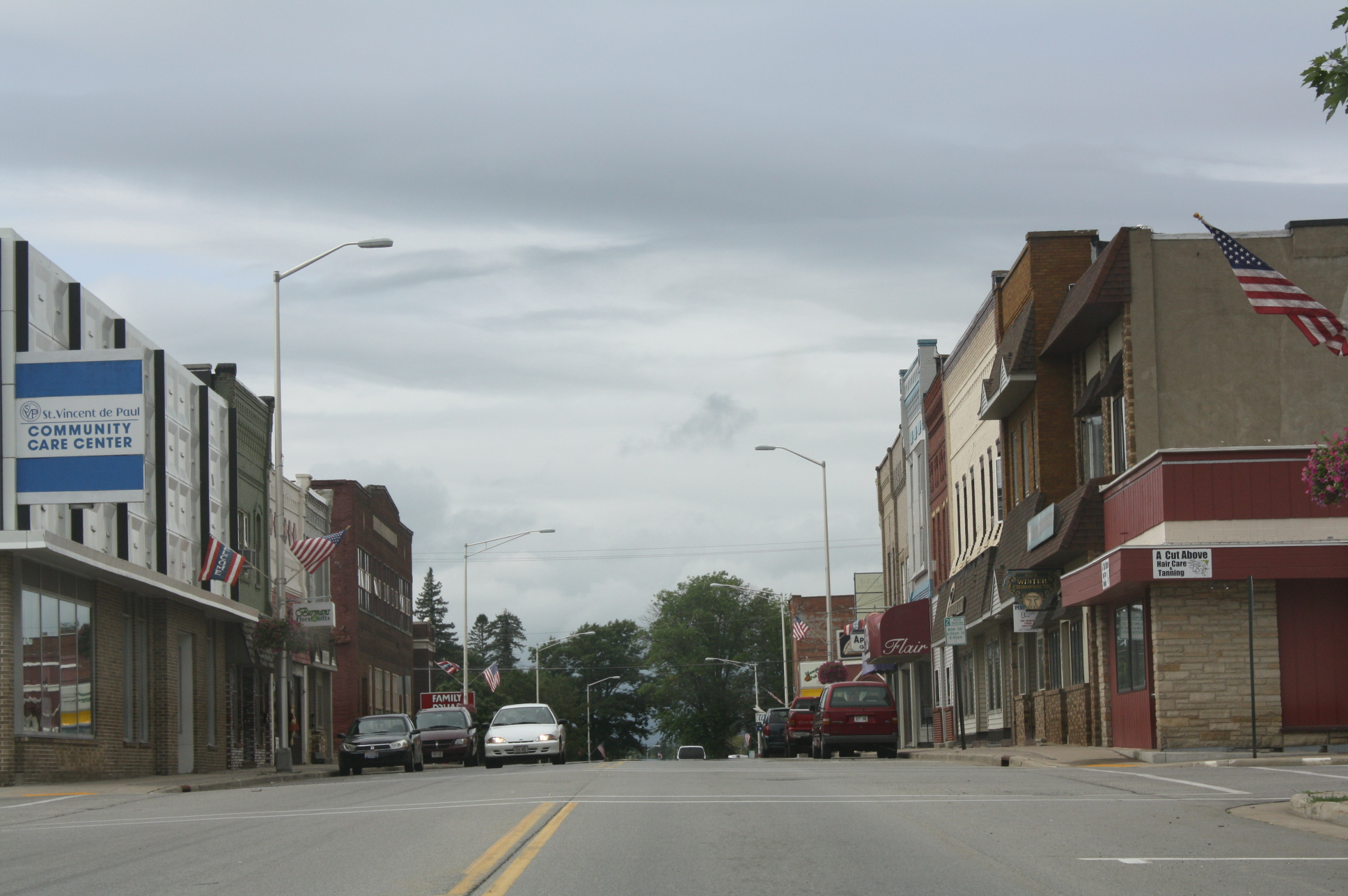 Looking west at the western downtown in Merrill, Wisconsin on Wisconsin Highway 64.